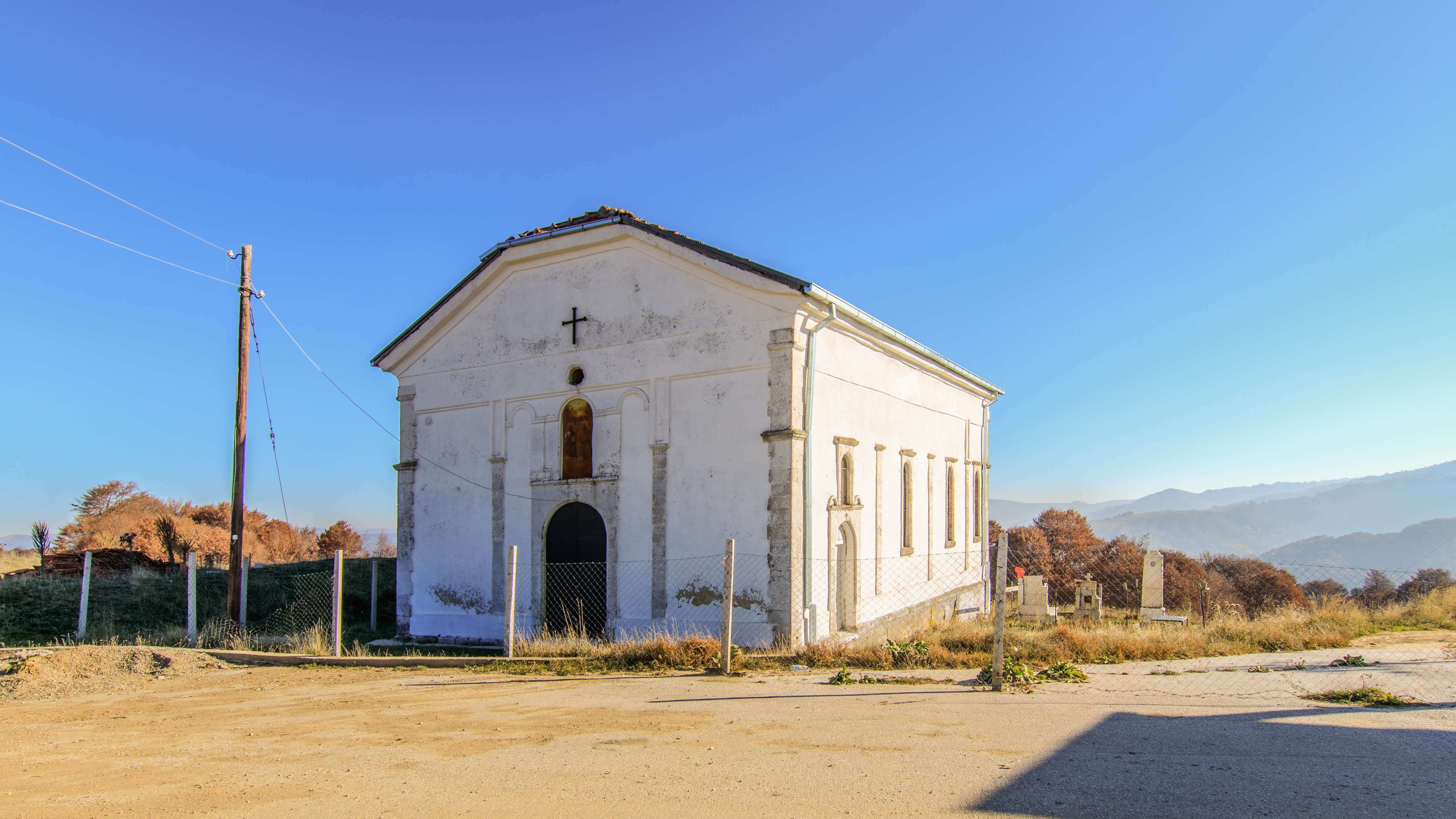 View of the Holy Trinity Church in the village German